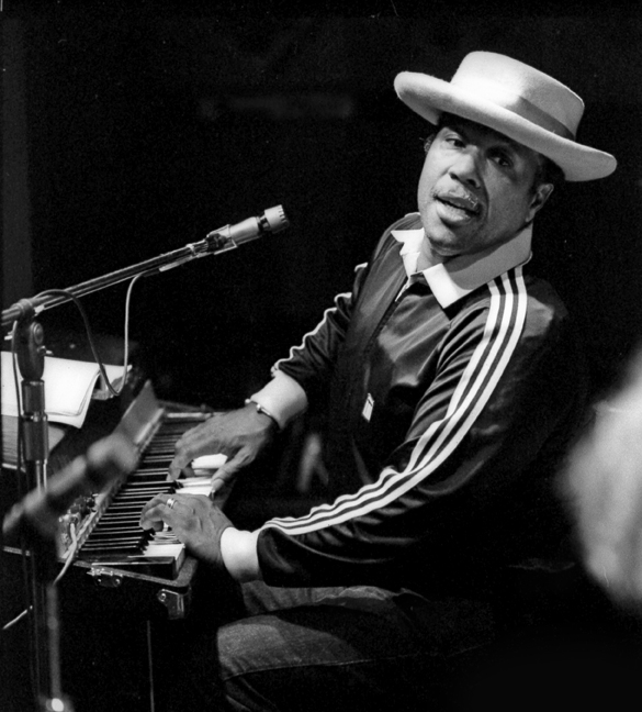 Les McCann at Keystone Korner, San Francisco CA 7/22/80. Photo: Brian McMillen /